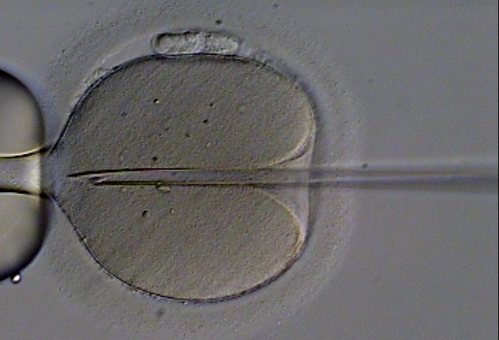 A human oocyte is held by a glass holding pipette (left). A beveled glass pipette containing an immobilized ejaculated spermatozoon is inserted through the zona pellucida and deep into the oolemma, creating a deep furrow. Once the membrane of the oocyte is penetrated, the sperm is deposited therein.